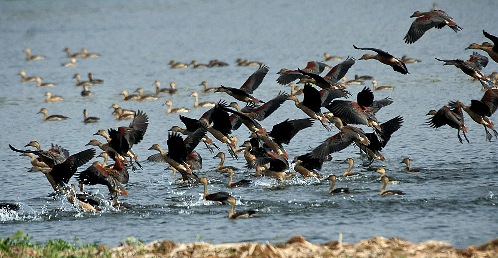 Lesser-whistling Duck (Dendrocygna javanica) in Kolkata, West Bengal, India.